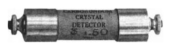 A carborundum crystal detector, an early semiconductor diode, used as a radio detector in 1920s radios. Invented in 1906 by Henry Harrison Chase Dunwoody, It consists of a piece of carborundum (silicon carbide) attached to one terminal, with a spring-loaded pin making contact with the surface. Since the carborundum detector didn't require the delicate "cat's whisker" contact needed by other cat's whisker detector crystals such as galena, it didn't have to be adjusted before each use and could be made in the form of a sealed cartridge. In addition to crystal radios, this type was also used in some powered vacuum tube radios because it was more sensitive to weak stations than the grid-leak vacuum tube detectors usually used. In use it was usually biased by a DC voltage of 3-4 volts to operate at the most sensitive point of its current-voltage curve.